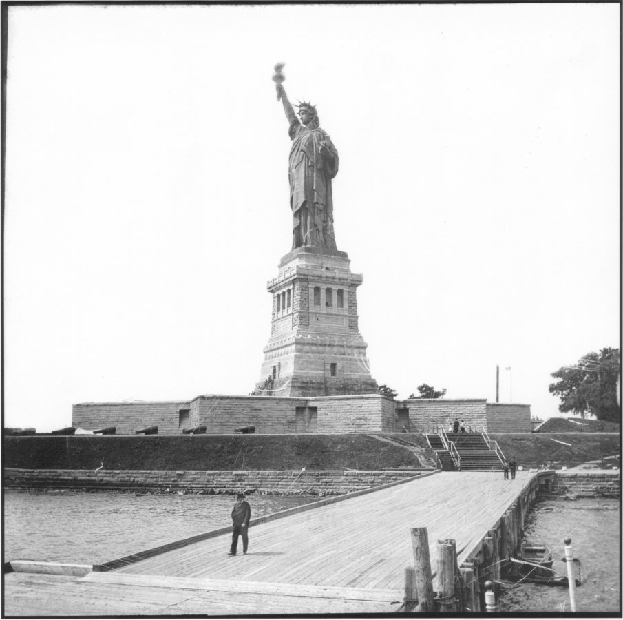 Fort Wood, Bedlow Island in New Your Harbor around the time of the birth of Henry Balding Lewis